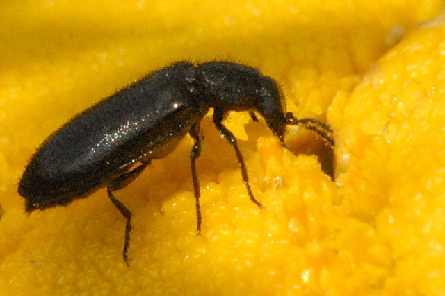 Aplocnemus nigricornis from Commanster, Belgian High Ardennes .